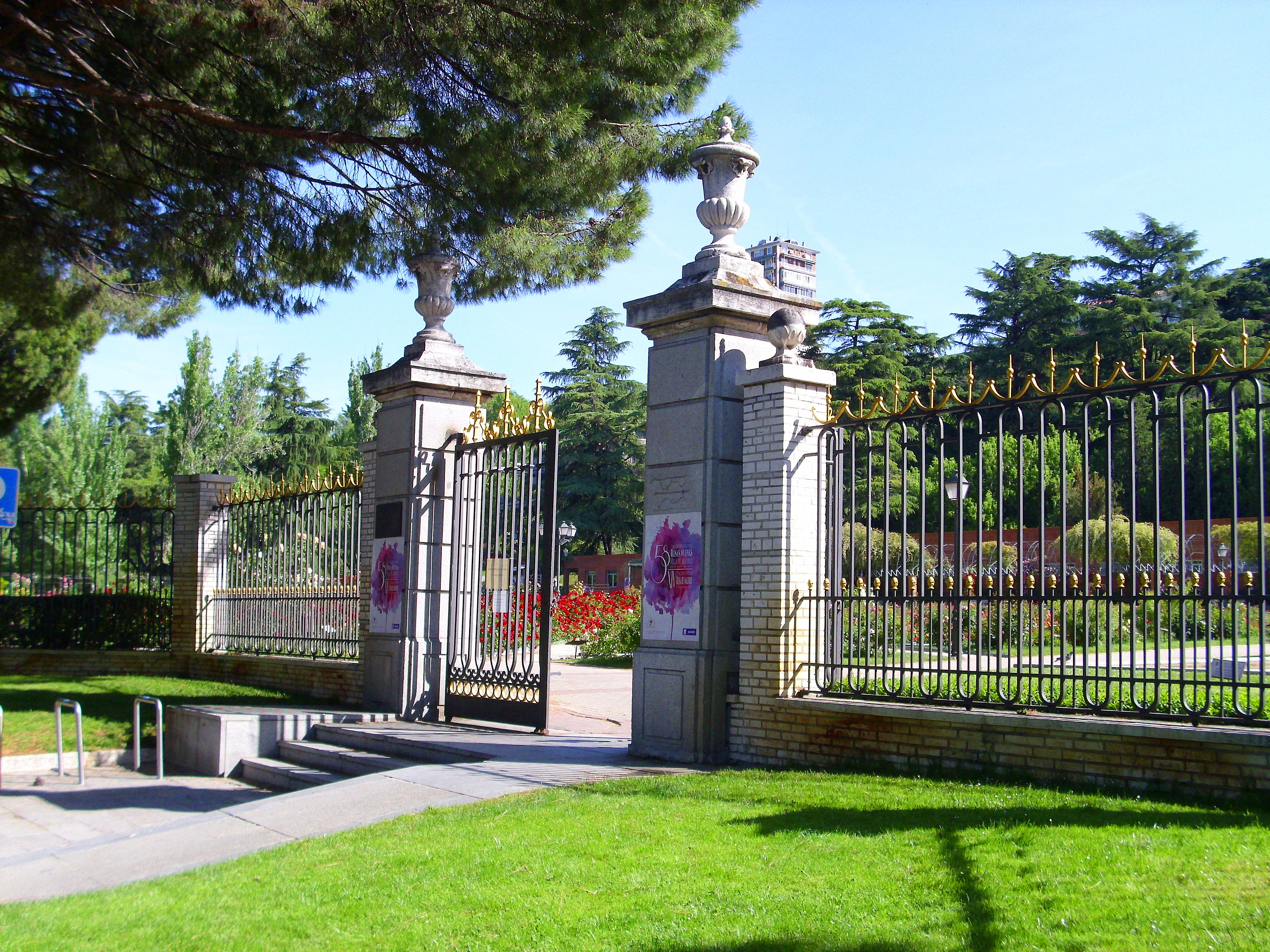 Rose garden of Parque del Oeste entrance